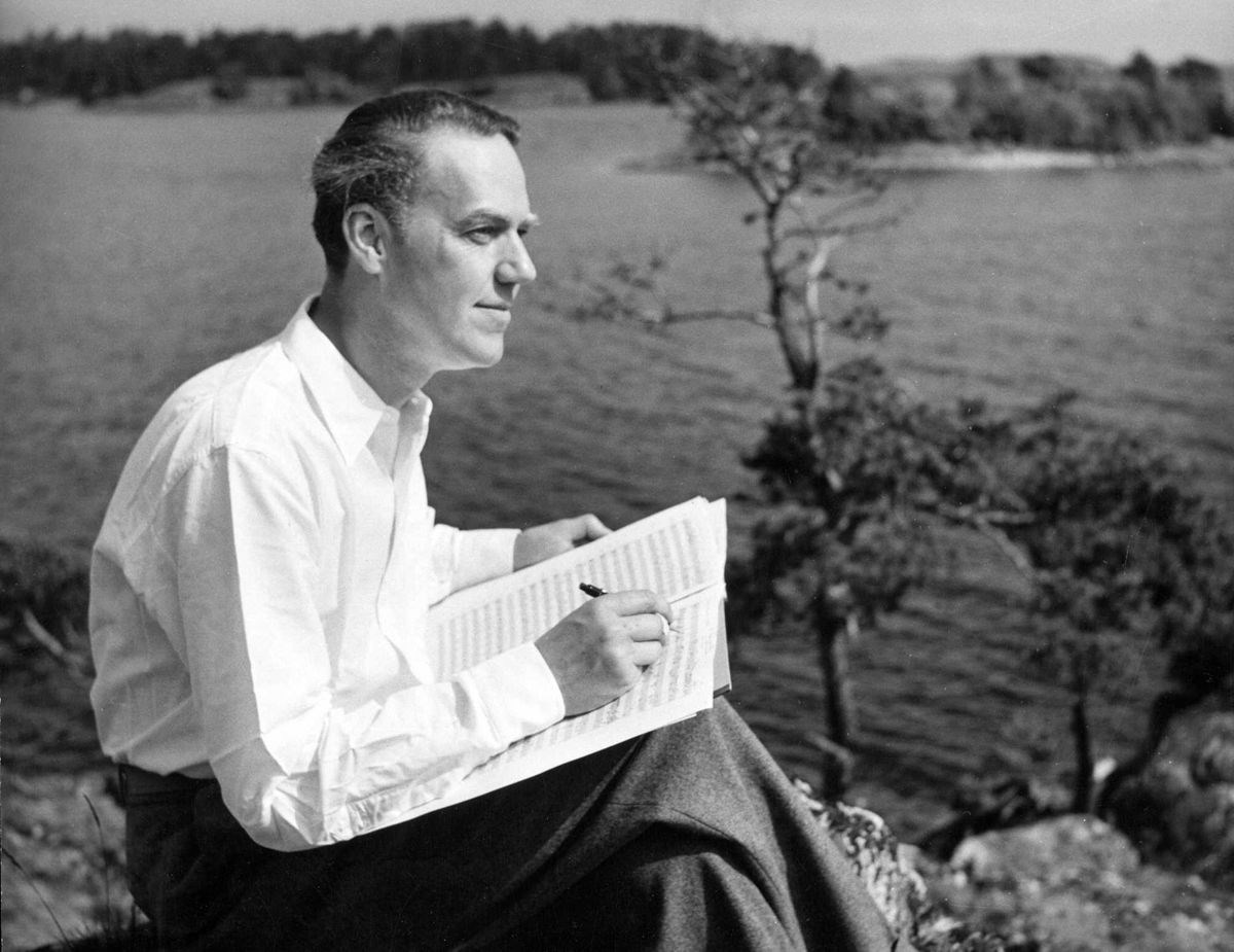 Photograph of the Swedish composer Erland von Koch (1910–2009) at his sommar residence in Ornö, Sweden.